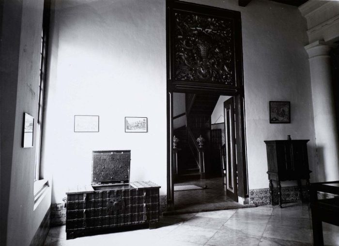 The 'Landsarchief' at Batavia